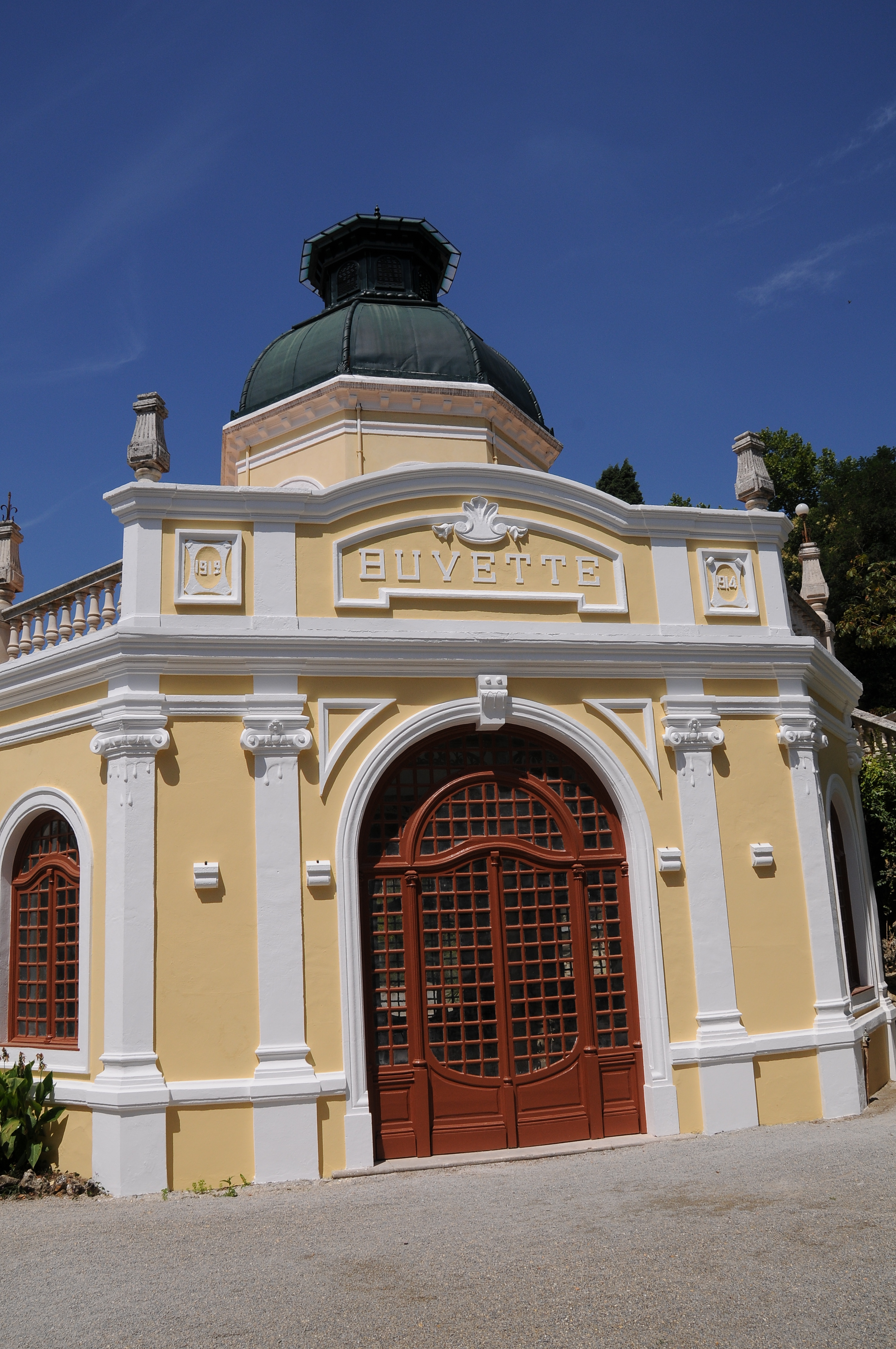 Curia Baths in Anadia Portugal.